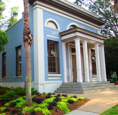 Historic Lewis State Bank in Tallahassee